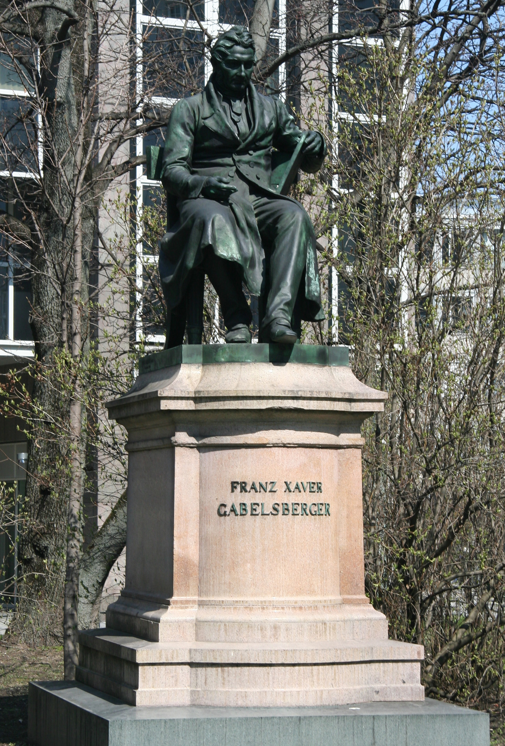 Memorial of Franz Xaver Gabelsberger (1789–1849), inventor of the Gabelsberger shorthand writing system, located in Munich/Bavaria, at the V-junction between Otto- and Barerstraße, sculpted by Syrius Eberle